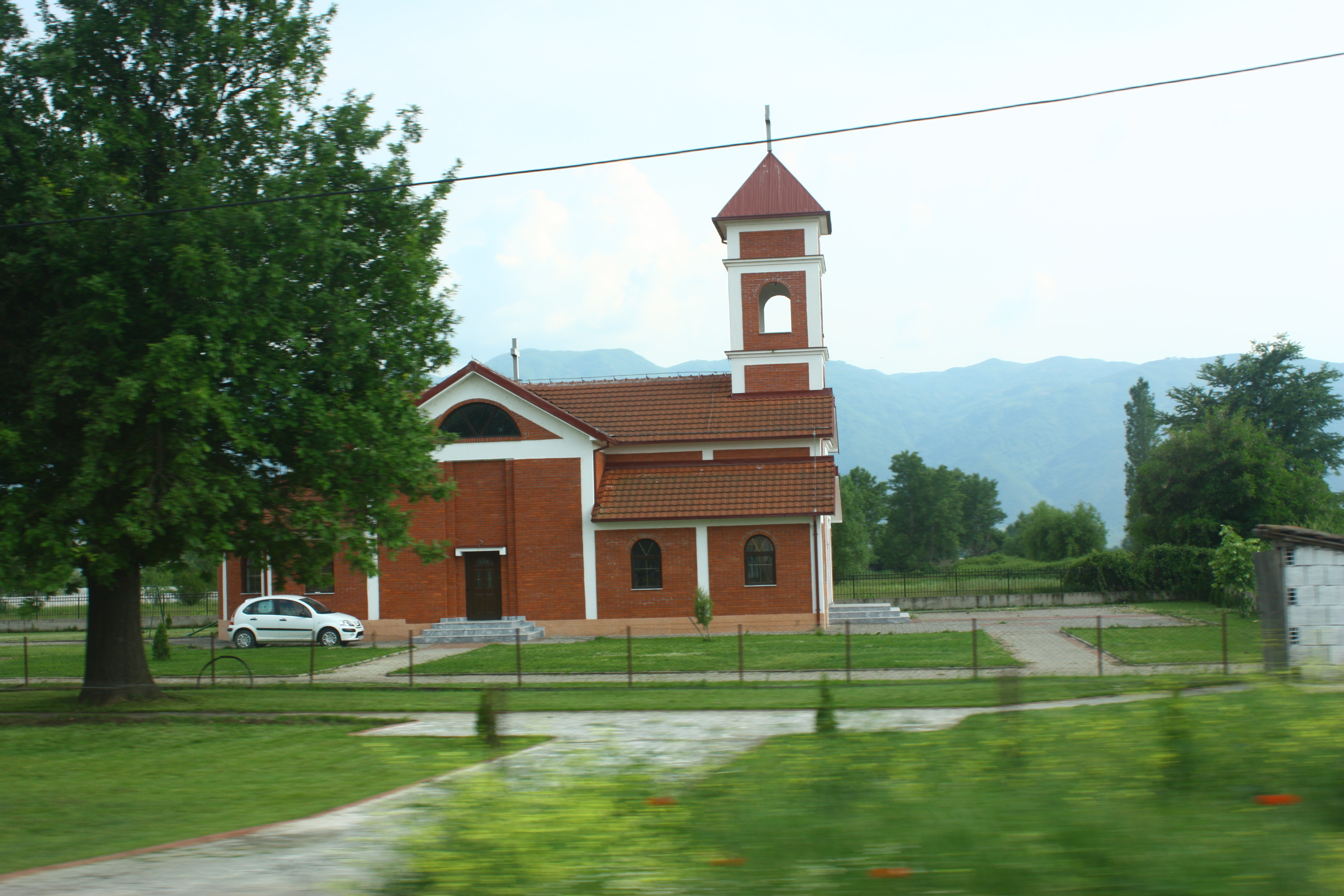 St. Nicholas Catholic Church in Sekirnik, Macedonia This image is uploaded as part of the picture contest Wiki Loves Cultural Heritage in Macedonia 2013. English | македонски | +/−